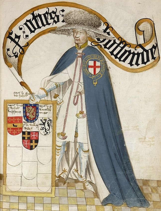 Otes Holland KG from the Bruges Garter Book, 1430/1440, BL Stowe 594. Shields on board (succssors in his stall ?) include Beauchamp and Willoughby